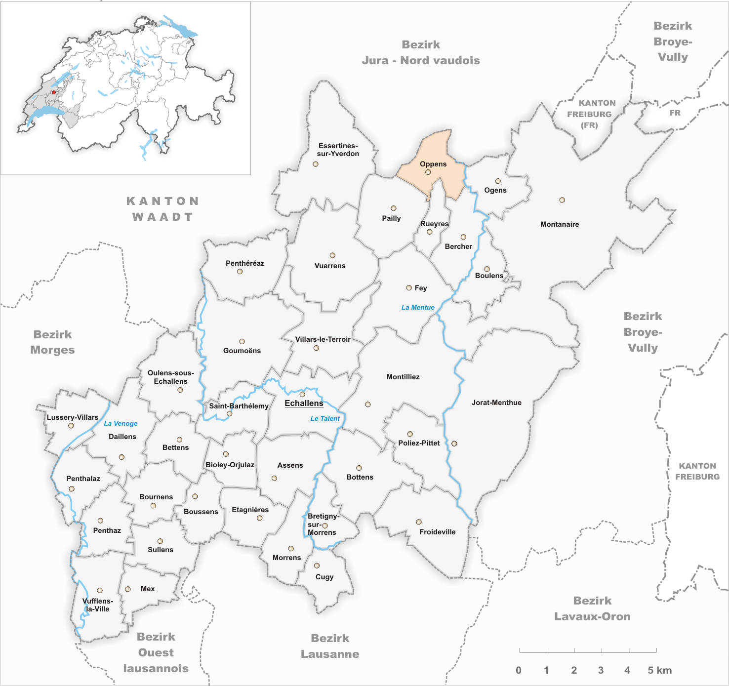 Municipality Oppens